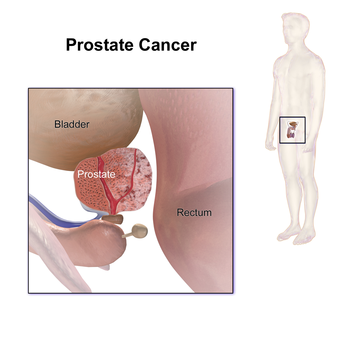 Prostate Cancer. See a full animation of this medical topic